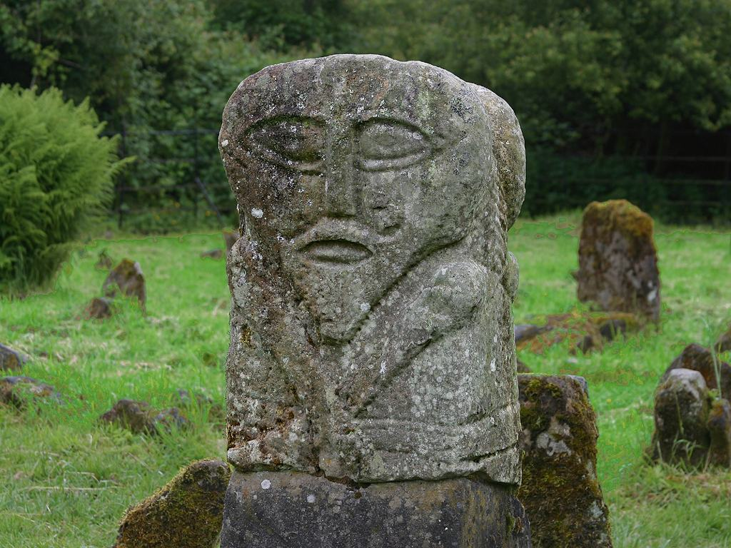 The Janus Figure on Boa Island, Co. Fermanagh, Northern Ireland.